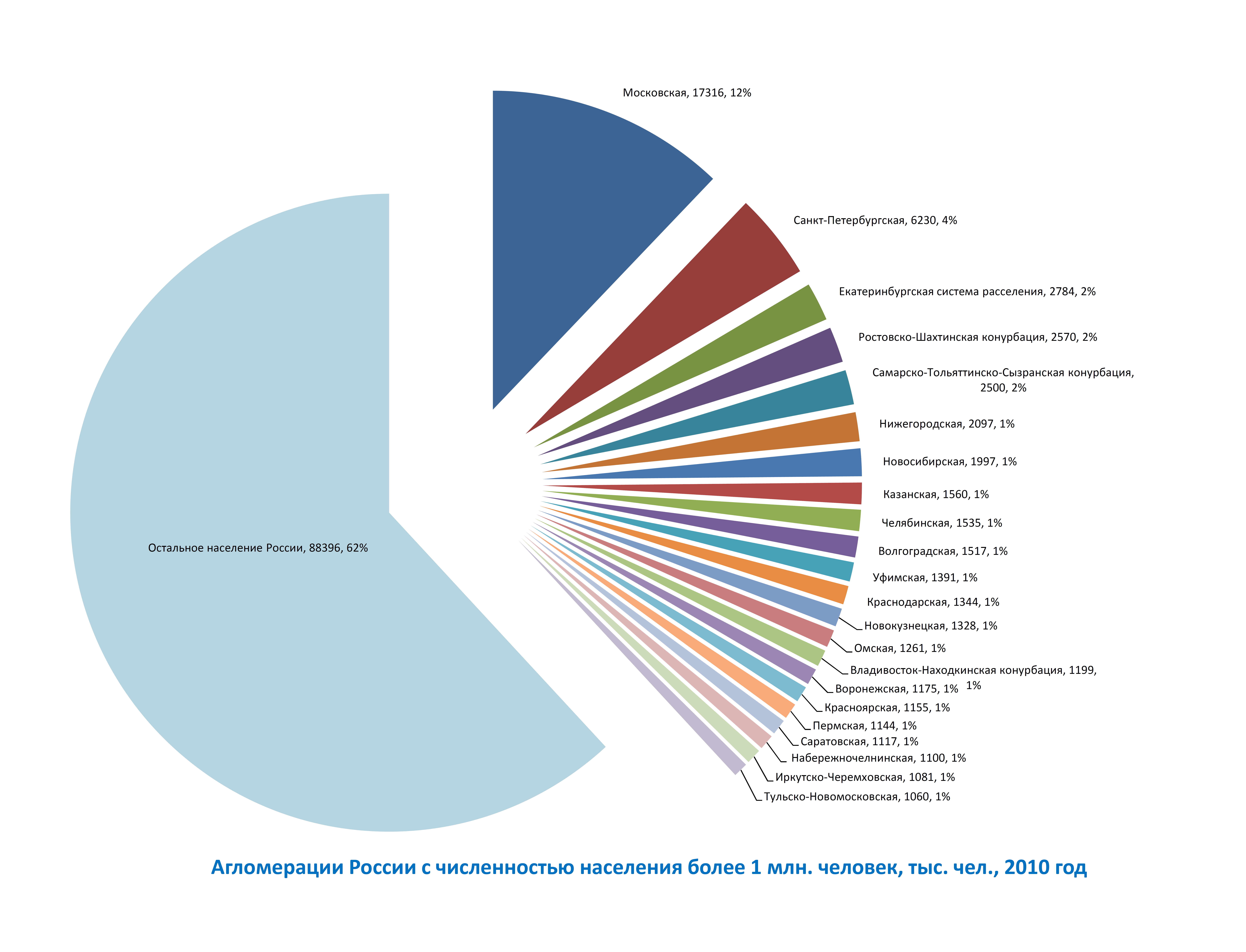 Urban agglomerations in Russia of more than 1 million people, 2010